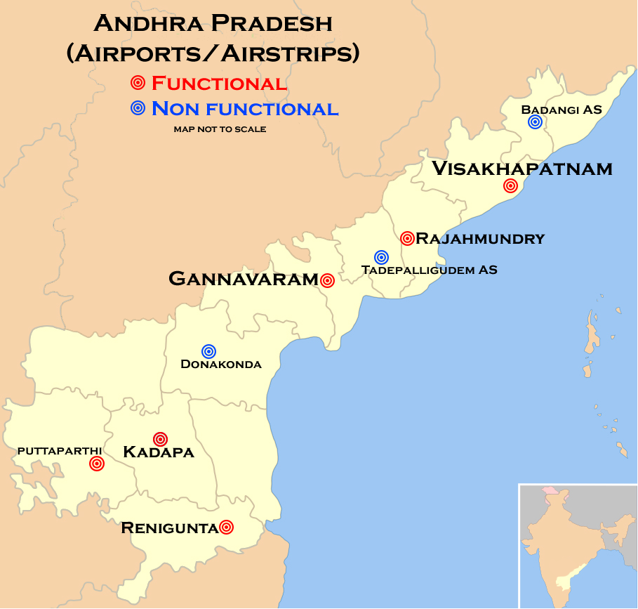 Map of Airports and airstrips of Andhra Pradesh in 2014